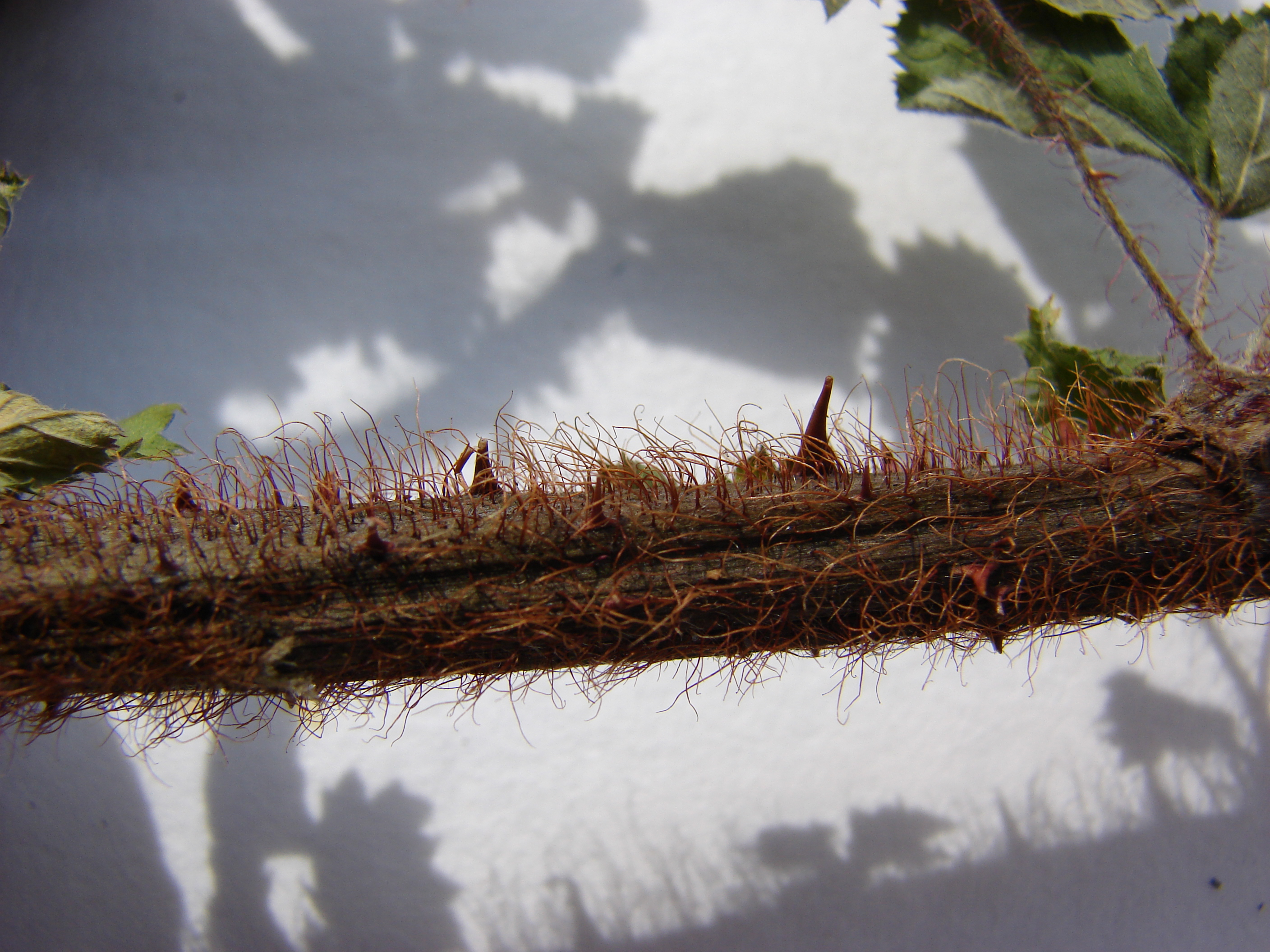 Rubus ellipticus (collection). Location: Maui, Enchanting Floral Gardens of Kula